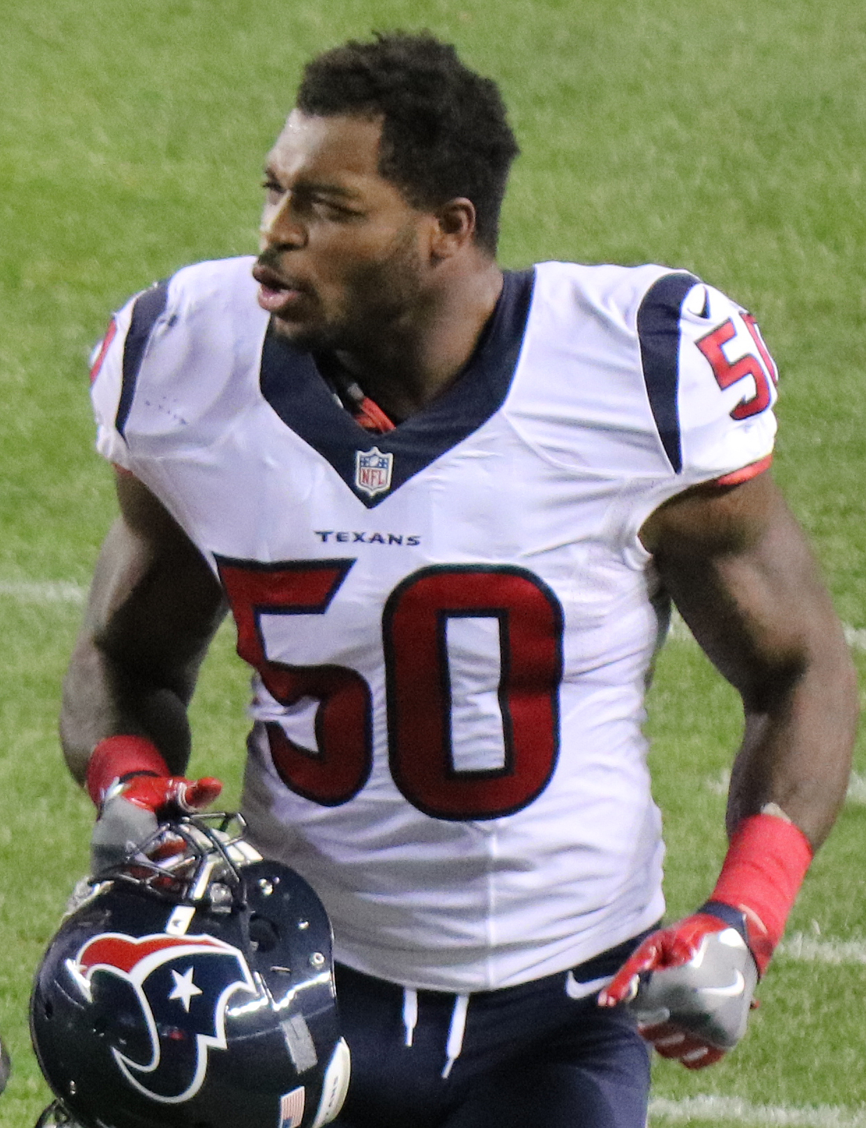 Akeem Dent, a player on the National Football League.